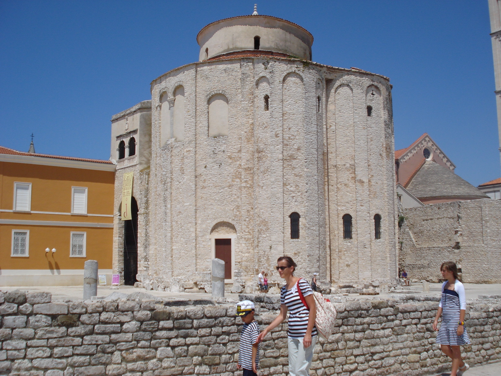 Saint Donatus's Church in Zadar, Croatia - south view